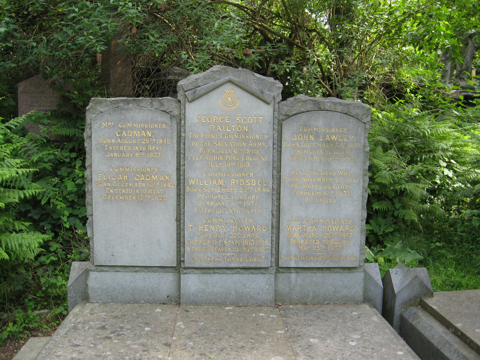 Photographs of Salvation Army graves taken at Abney Park Cemetery